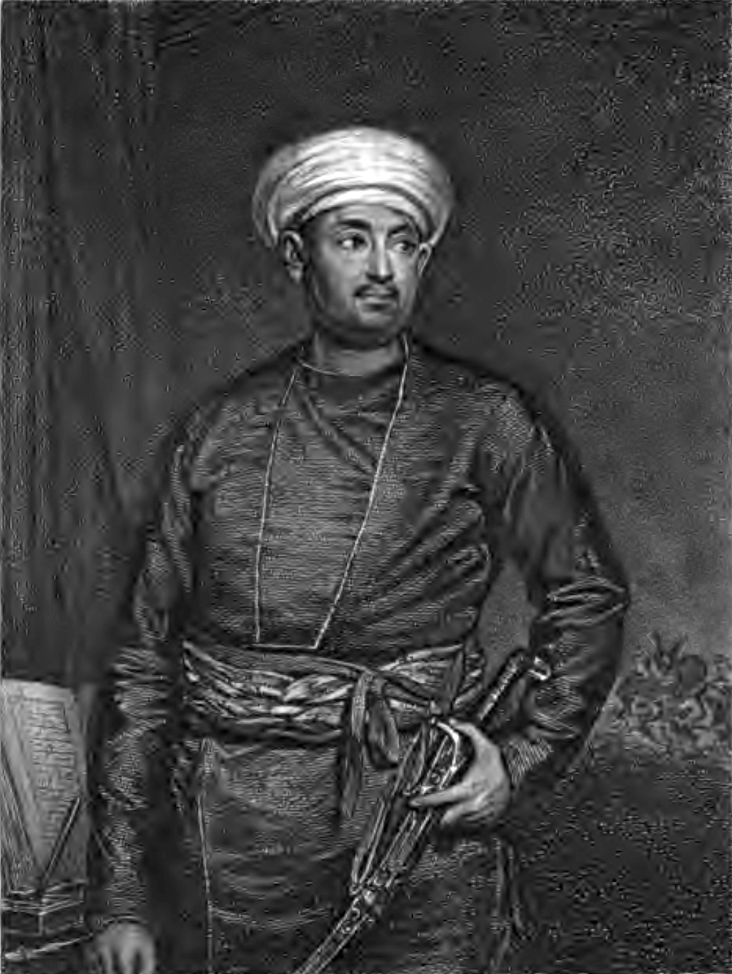 Engraving of Mirza Abu Taleb Khan after a portrait by J. Northcote RA, from the frontispiece of Khan, Mirza Abu Taleb; Stewart, Charles (1814). Travels of Mirza Abu Taleb Khan